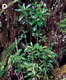 Drimys granadensis, young stem shoots and leaves (Cerro de la Muerte, km 70 Pan-American Hwy, road to El Paraiso del Quetzal, 2700 m).